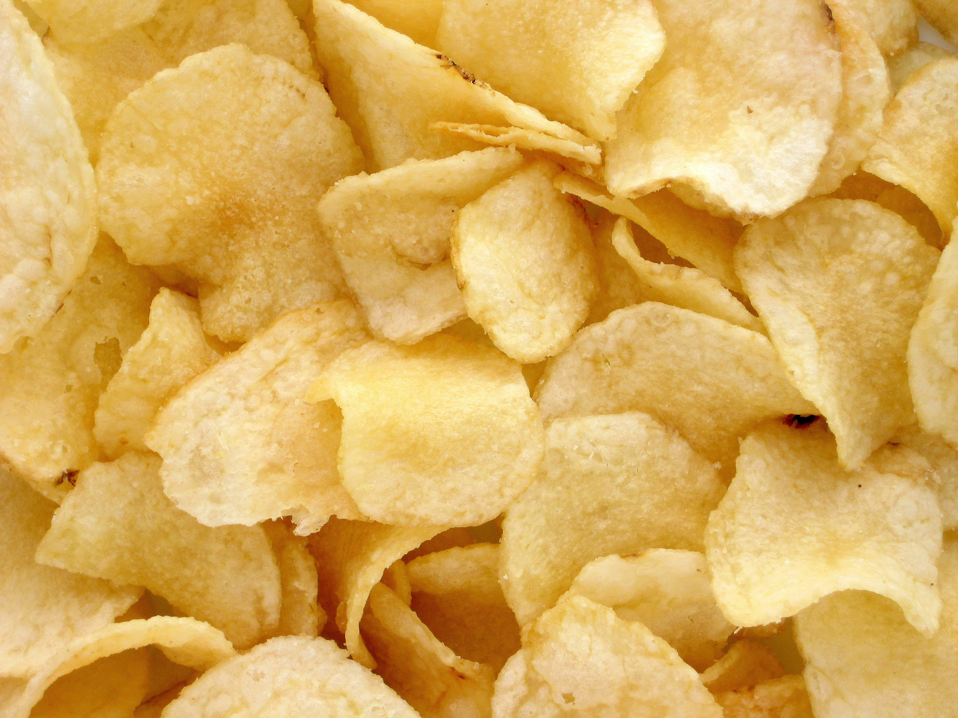 A pile of potato chips. These are Utz-brand, grandma's kettle-cooked style.